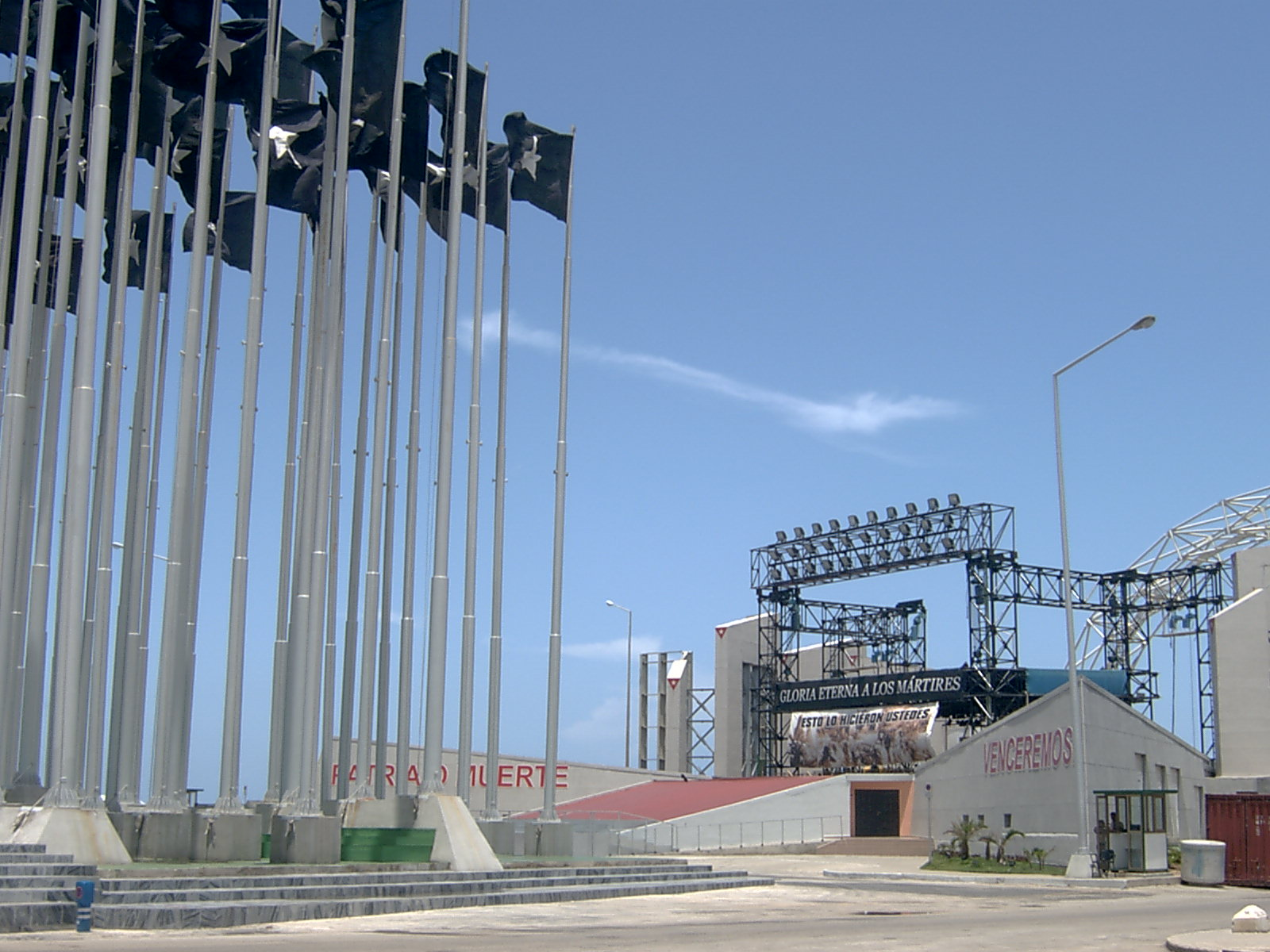 Anti-imperialist tribune José Martí in La Habana, in front of the USA interest bureau.